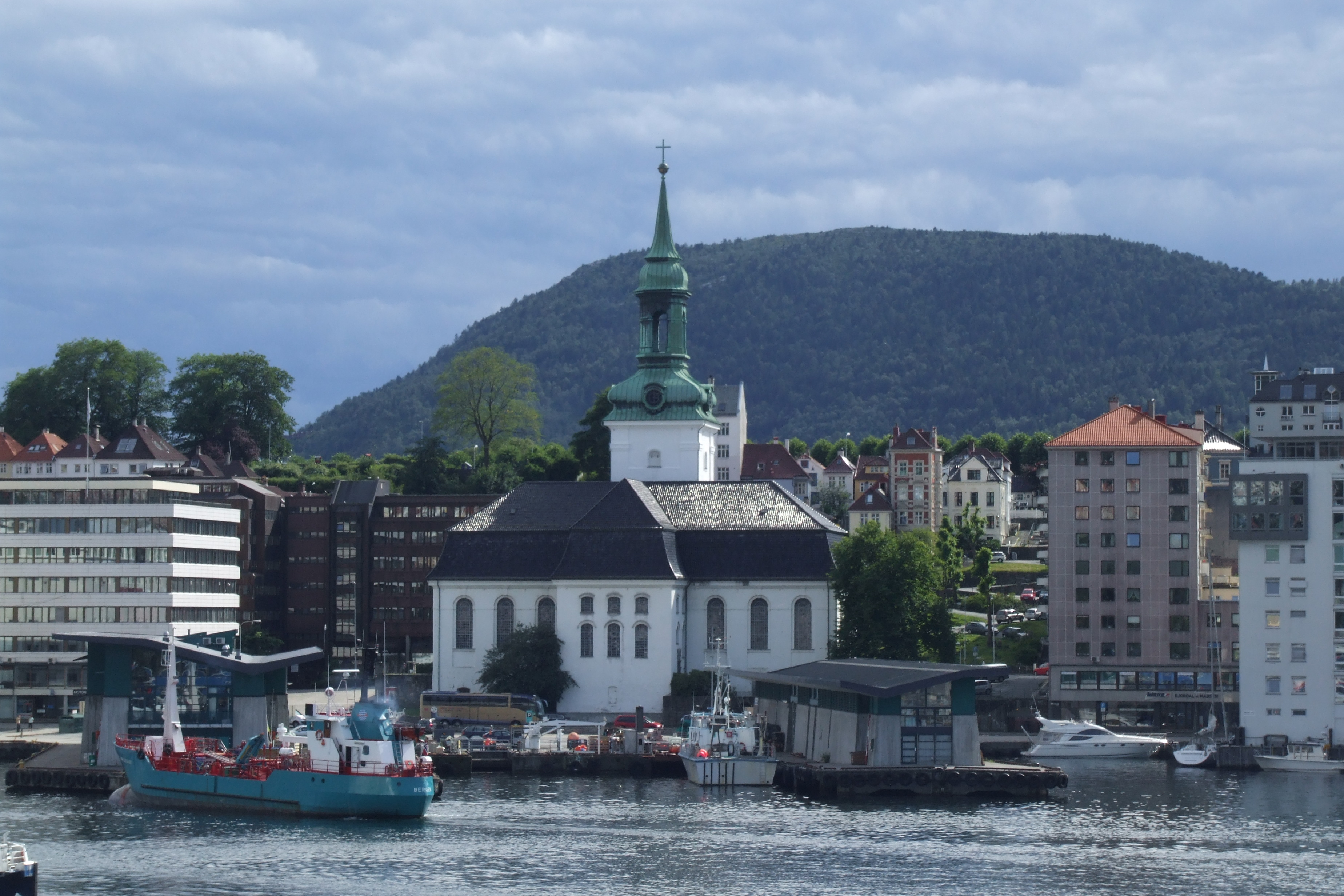 Nykirken churche in Bergen, Norway